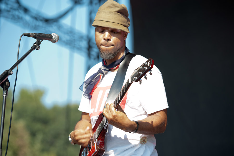 Van Hunt @ Music Midtown in Atlanta, GA on September 21, 2012. This photo is licensed under a Creative Commons license. If you use this photo within the terms of the license or make special arrangements to use the photo, please list the photo credit as "Mark Runyon